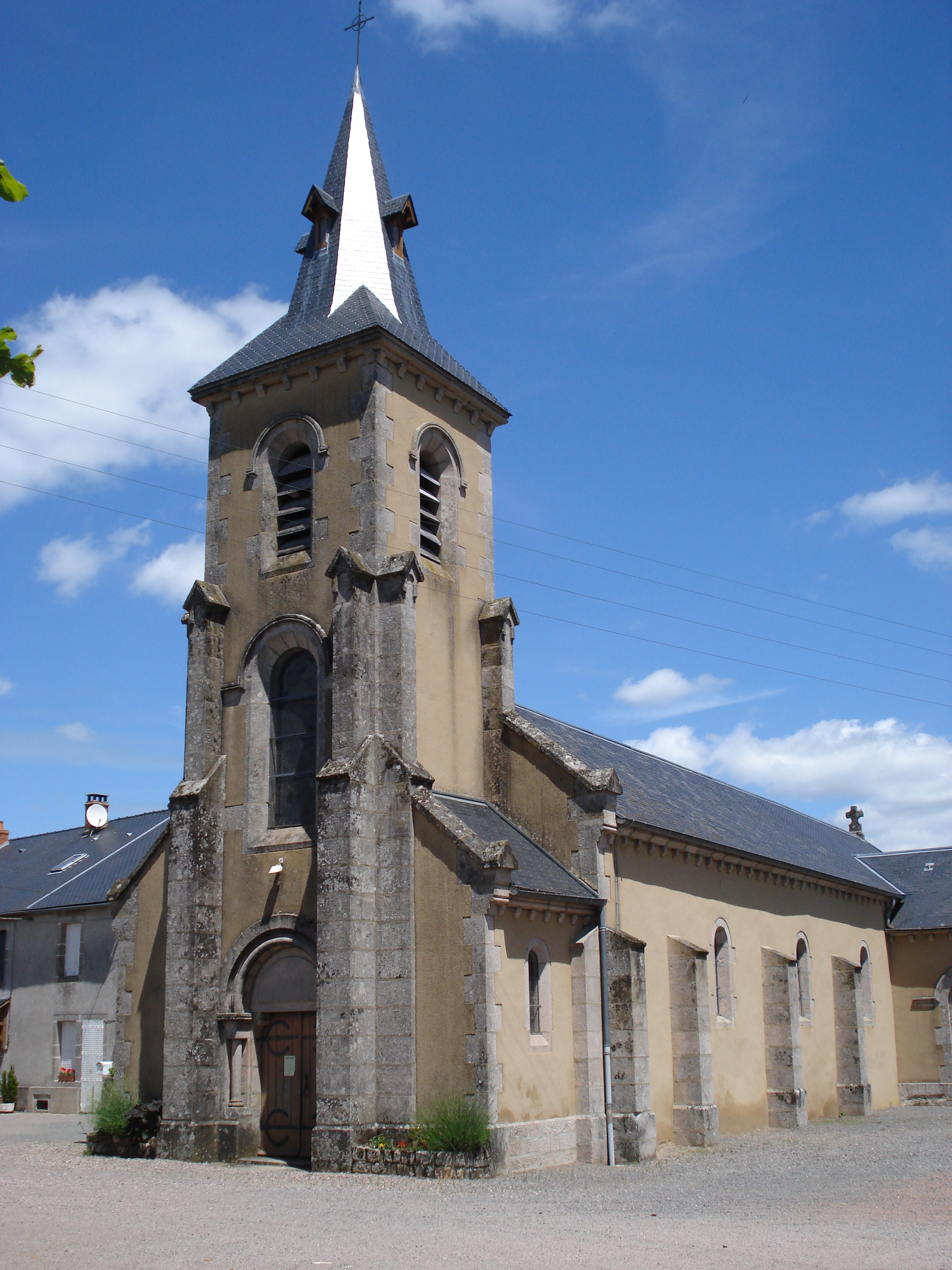 Saint-Prix (Saône-et-Loire), l'église.